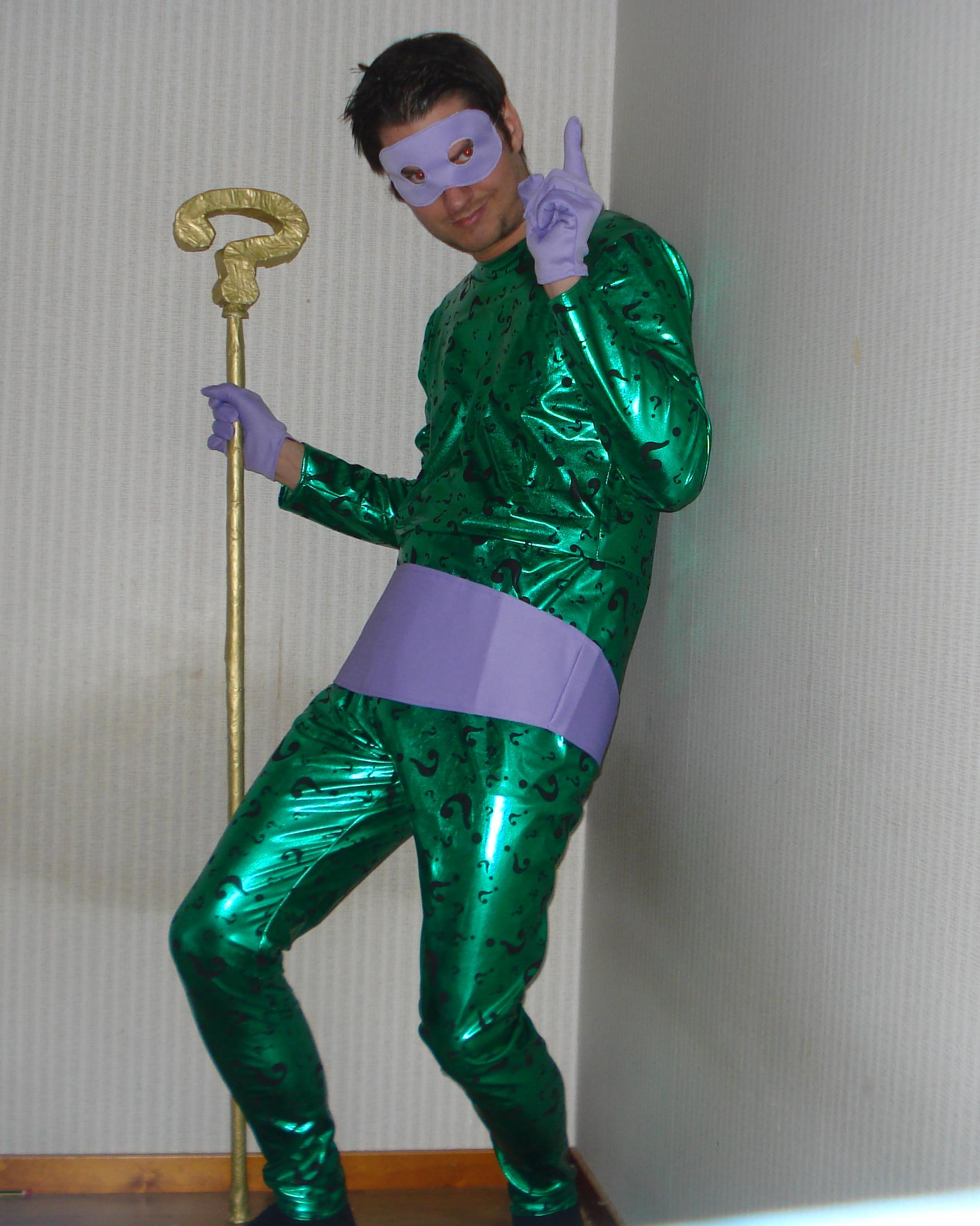 A man disguised as the Riddler.